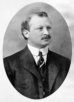 Portrait for use in a biographical article on the English Wikipedia